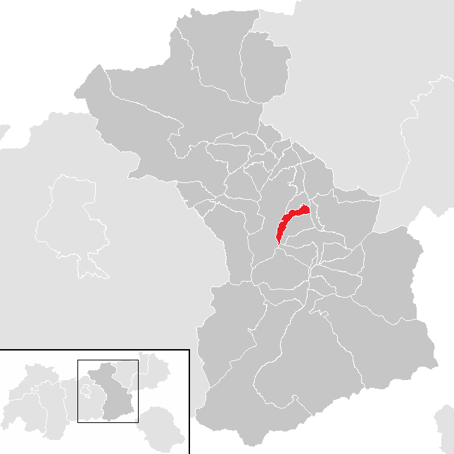 District Schwaz